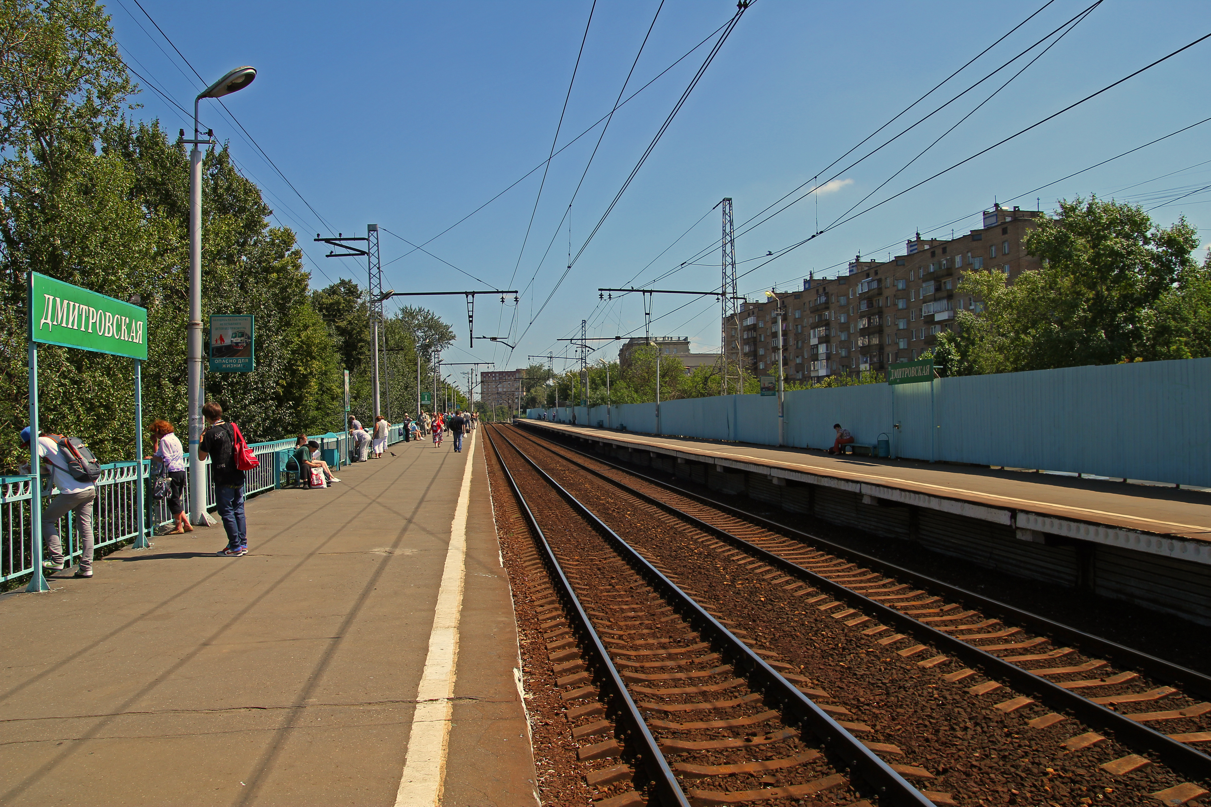 Train stop Dmitrovskaya in Moscow